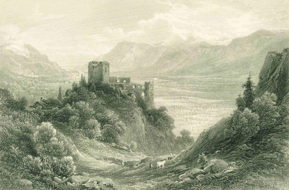 Mid 19th century steel engraving, Ruins of the Brunnenburg, near Meran, South Tyrol